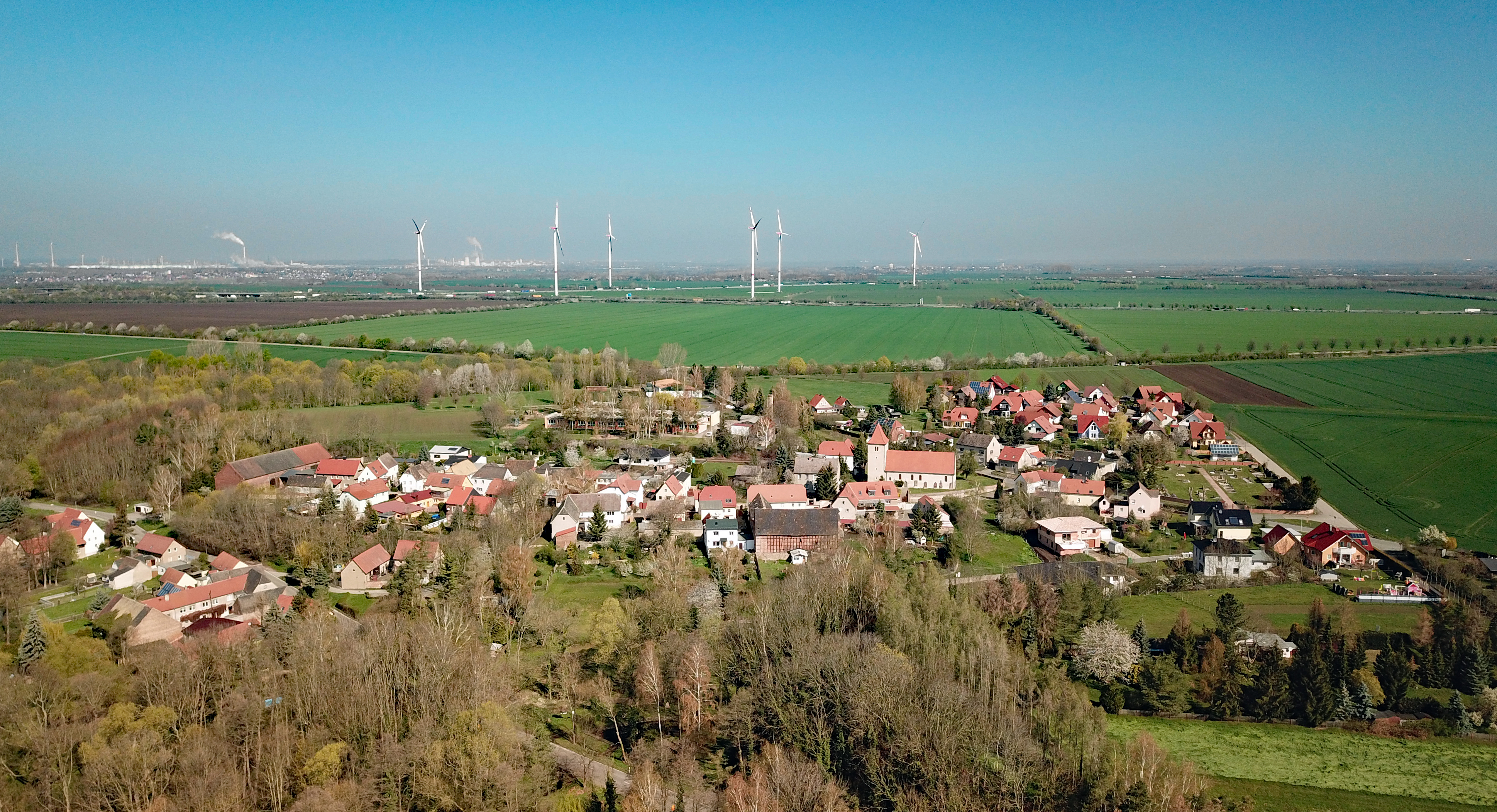 Großgöhren (Lützen, Saxony-Anhalt, Germany)